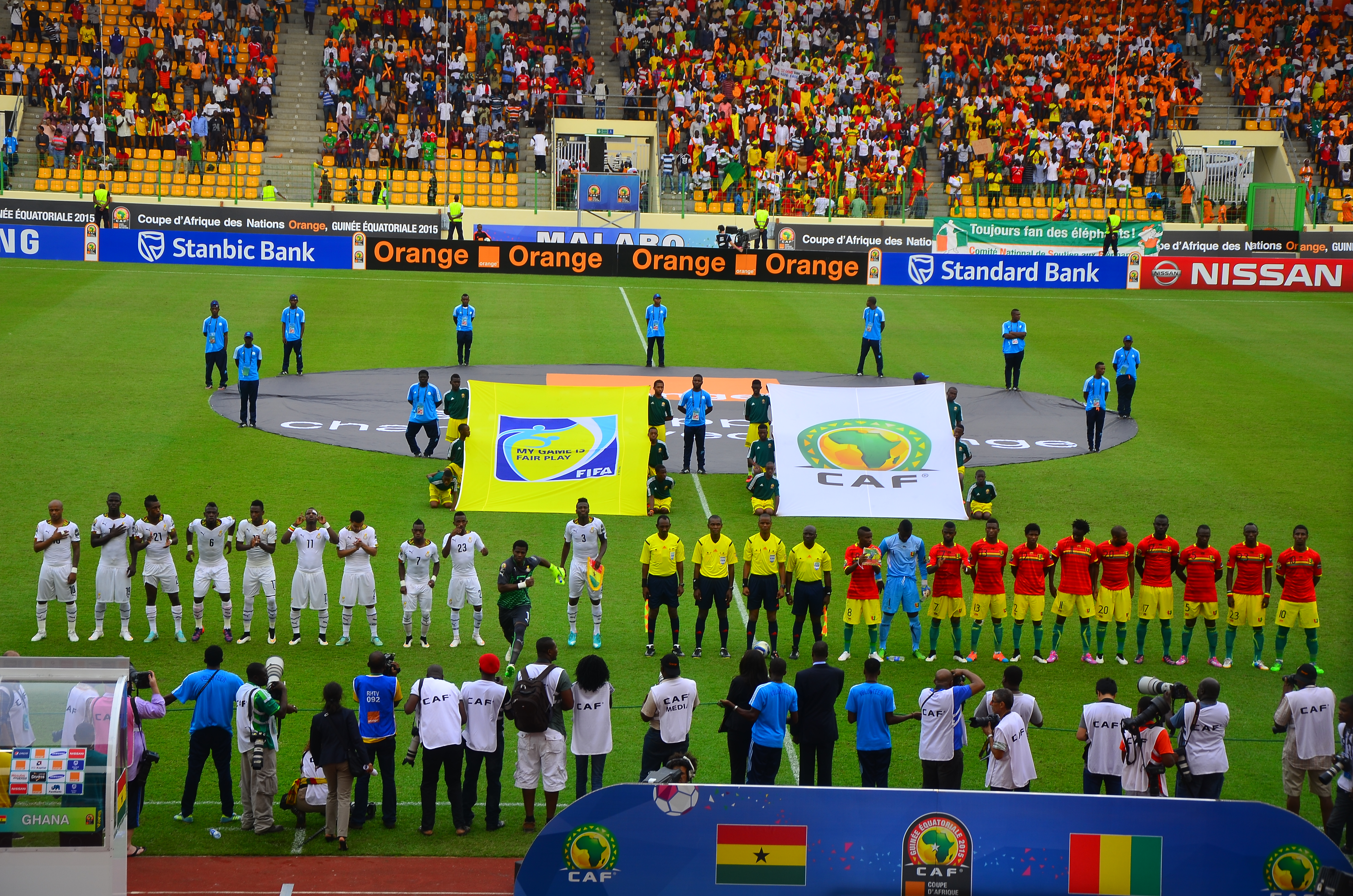 This is a picture of a soccer game (name of it is on file name).